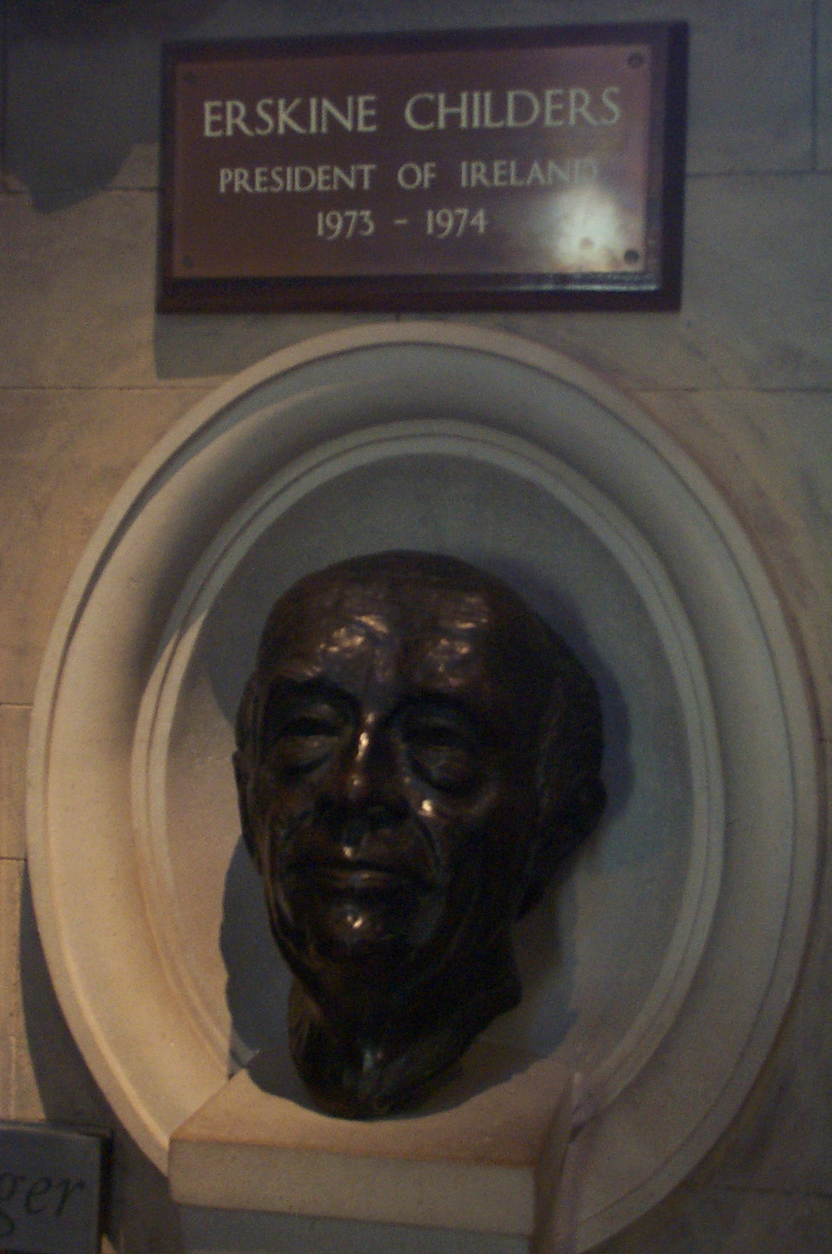 memorial to Erskine Hamilton Childers in St. Patrick's Cathedral, Dublin